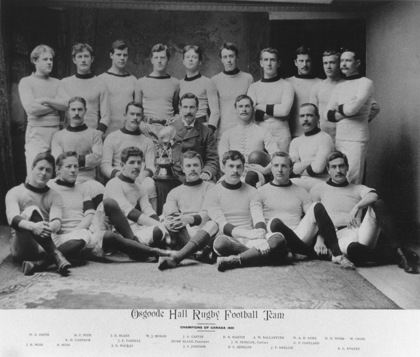 Members of the Osgoode Hall law school rugby football team, which won the national championship in 1891. Depicted are: W.A. Smith, H.C. Pope, J.R. Blake, W.J. Moran, J.A. Garvin, D.R. Martin, A.W. Ballantyne, W.A.H. Kerr, H.H. Wood, W. Cross, K.H. Cameron, J.F. Farrell, Hume Blake (President), J.H. Senkler (Captain), G.T. Copeland, J.H. Moss, R. Moss, J.G. MacKay, J.S. Johnson, E.C. Senkler, J.F. Smellie, and E.G. Rykert.